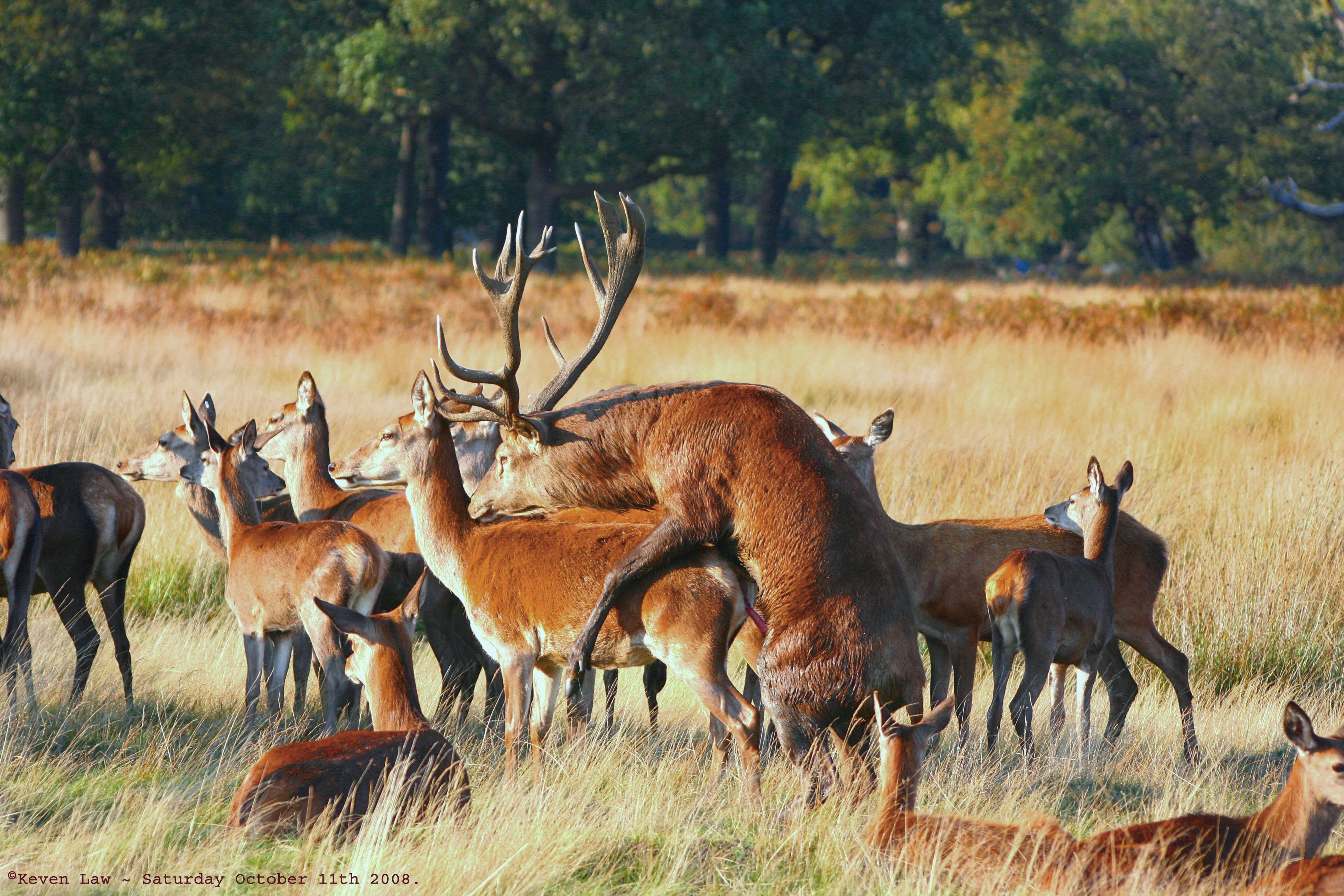 Mating Red Deer - Richmond Park, London, England - Saturday October 11th 2008 (edited version).